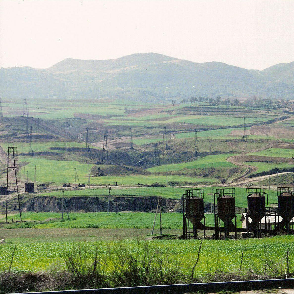 Oil production in Mallakastra, Albania